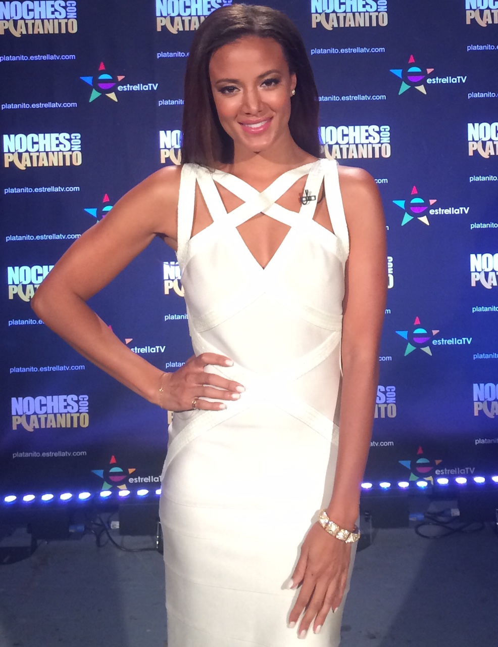 Hemmens at a charity event.